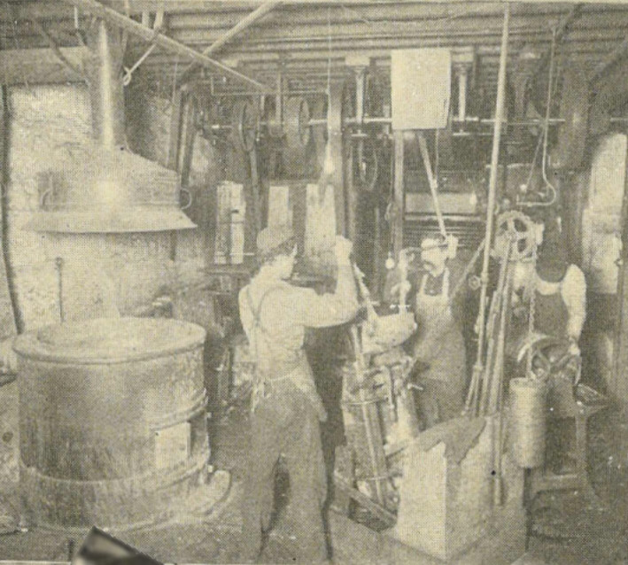 "Making the stereotypes", one of a group of three photos from brochure Seattle and the Orient (1900) collectively captioned "Where the Daily Times is made." This is part of a long section on The Seattle Daily Times, publisher of the brochure/booklet. The newspaper is now known simply as the Seattle Times.